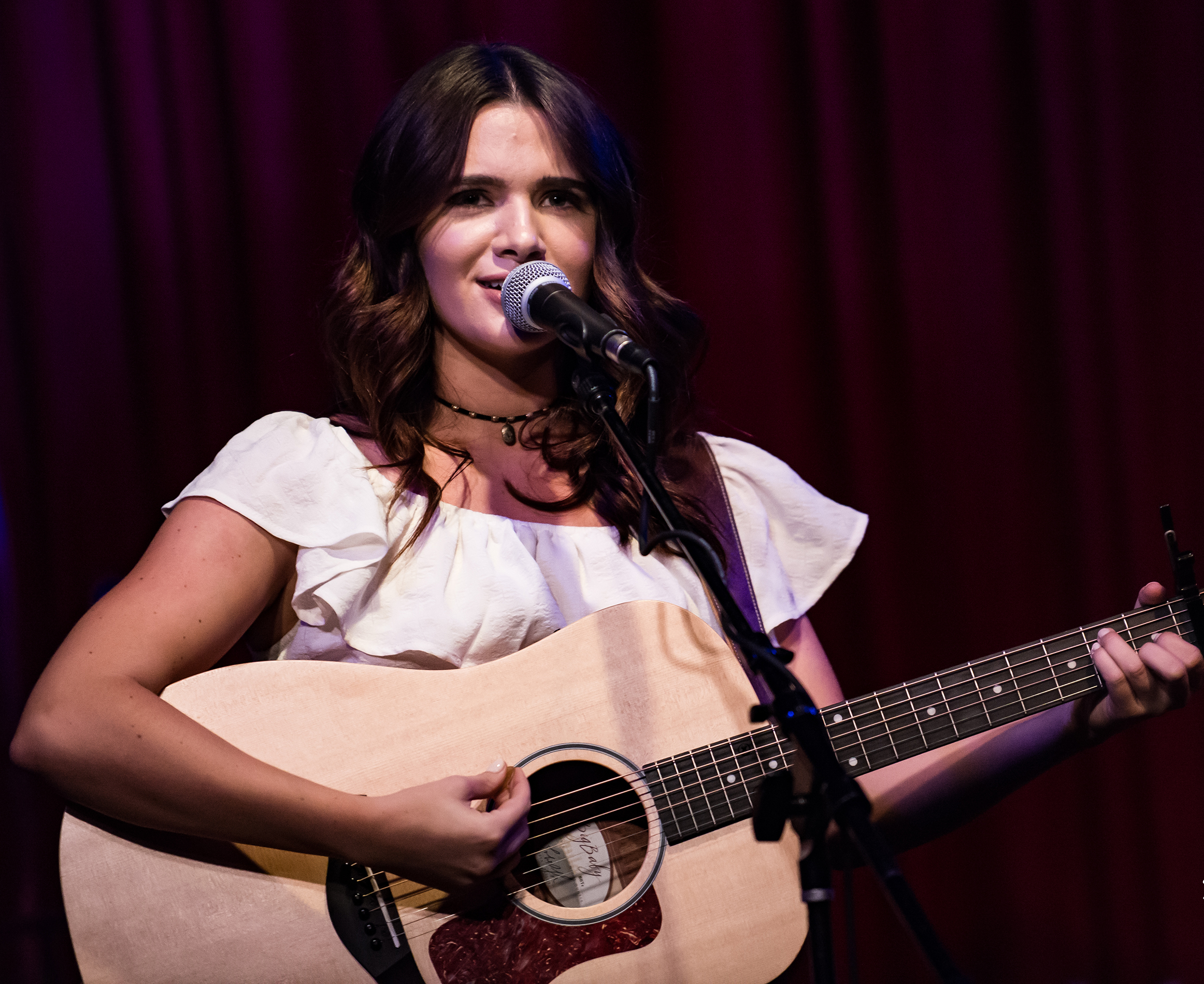 Katie Stevens at the Hotel Cafe